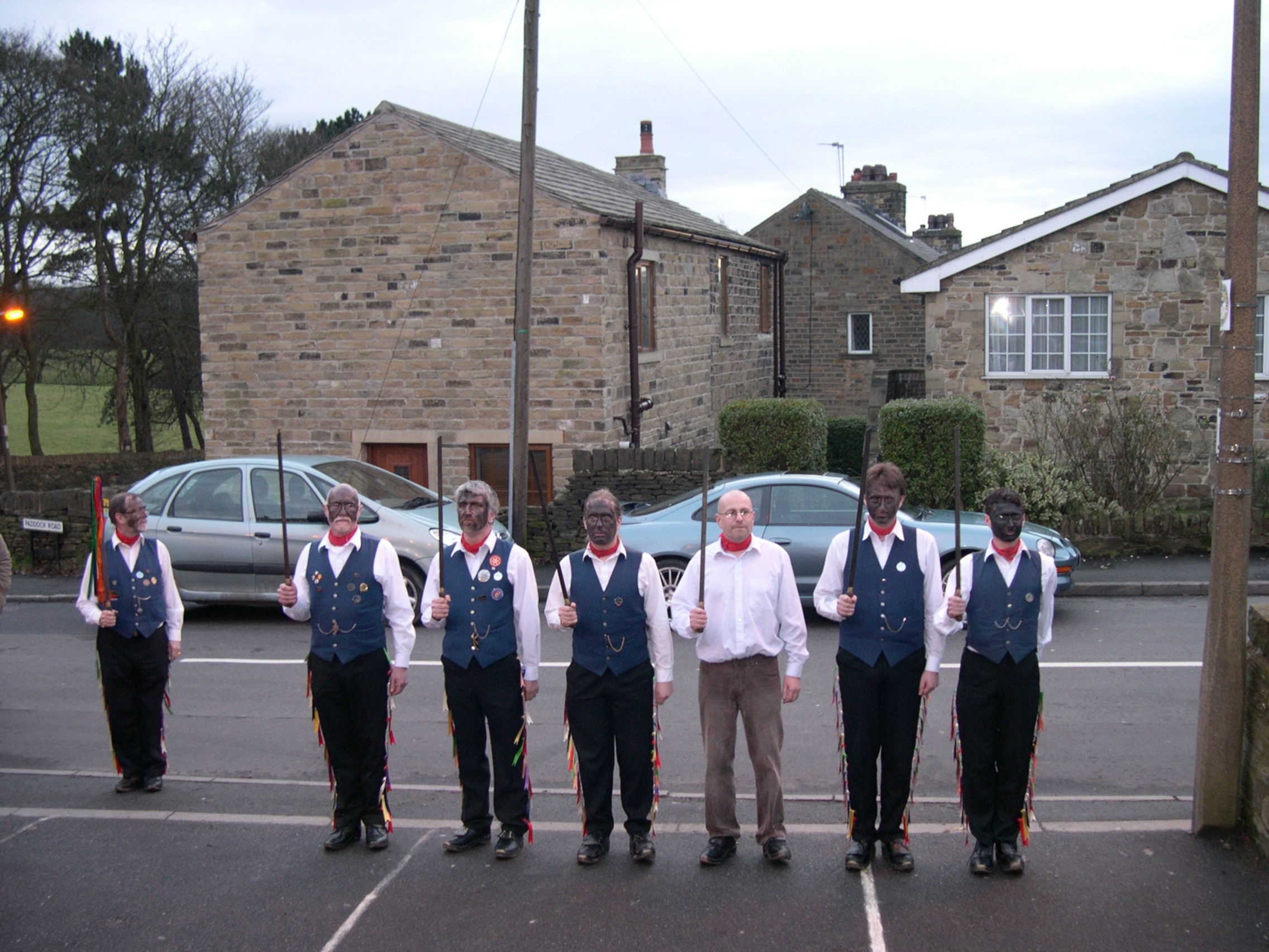 Kirkburton Rapier Dancers outside the Junction Inn in Kirkburton, New Years Day 2006. Photographed and uploaded by Richard Eddy the copyright holder